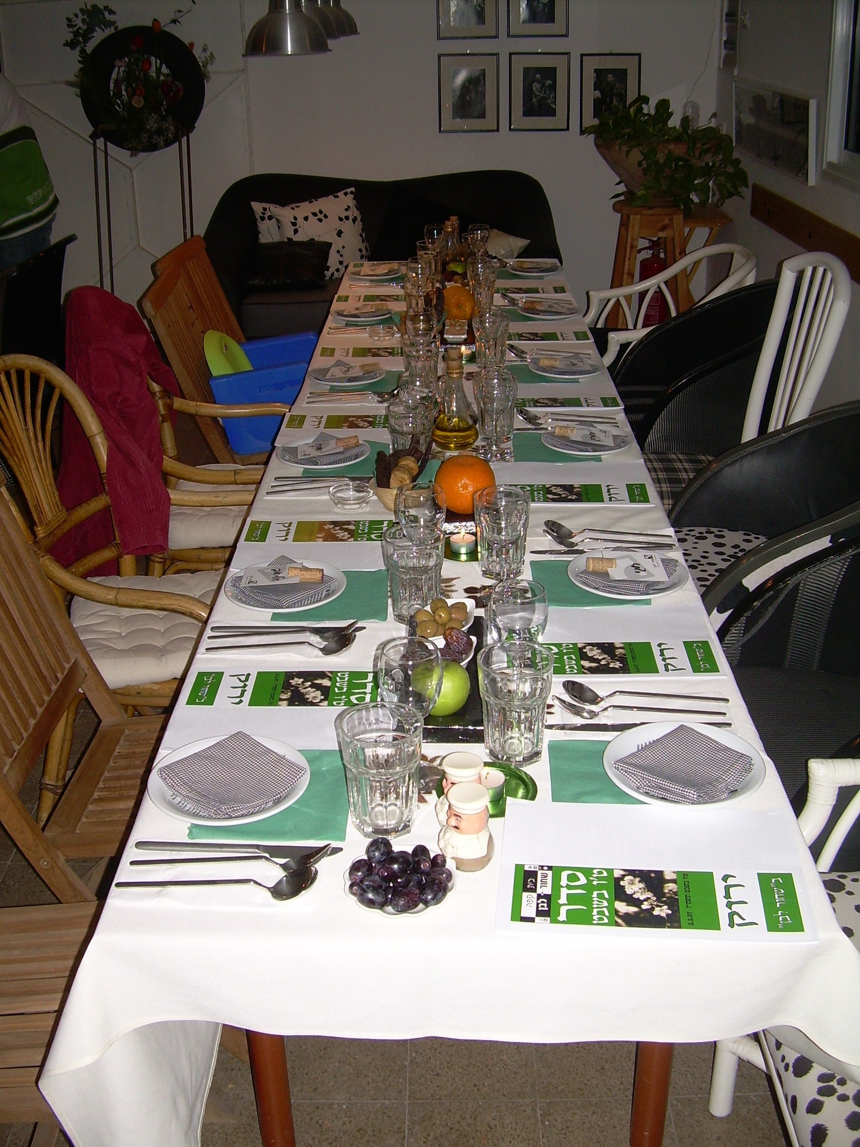 Seder Tu B'Shvat 2007 , Jewish holidays